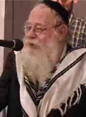 This is a screenshot from a video on the Sanhedrin taken by Arutz Sheva news service. This picture is one of several screenshot from that video that have been placed in the public domain on 07/09/2006 by its producer as represented by Baruch Gordon, Director Of English Media, Arutz Sheva. I have the records & and can fax them to whom it may concern. It is required to illustrate critical discussion of the subject and support claims that events described really happened. --Historian2 10:02, 11 September 2006 (UTC)--Historian2 18:16, 10 September 2006 (UTC) I have contacted User:Historian2 to attempt to address records verifying that the image has in fact been transferred into the public domain as claimed. In the meanwhile, the image is necessary for (a) Modern attempts to revive the Sanhedrin to verify Adin Steinsaltz's status as the Nasi (head) of this group, and (b) Adin Steinsaltz to verify Adin Steinsaltz' notability. --Shirahadasha (talk) 04:35, 24 January 2008 (UTC) I have the records, who do want me to send them to? --Historian2 (talk) 05:54, 24 January 2008 (UTC) Newspaper reports as late as last week still list Adin Steinsaltz as Nasi. --Historian2 (talk) 05:54, 24 January 2008 (UTC)